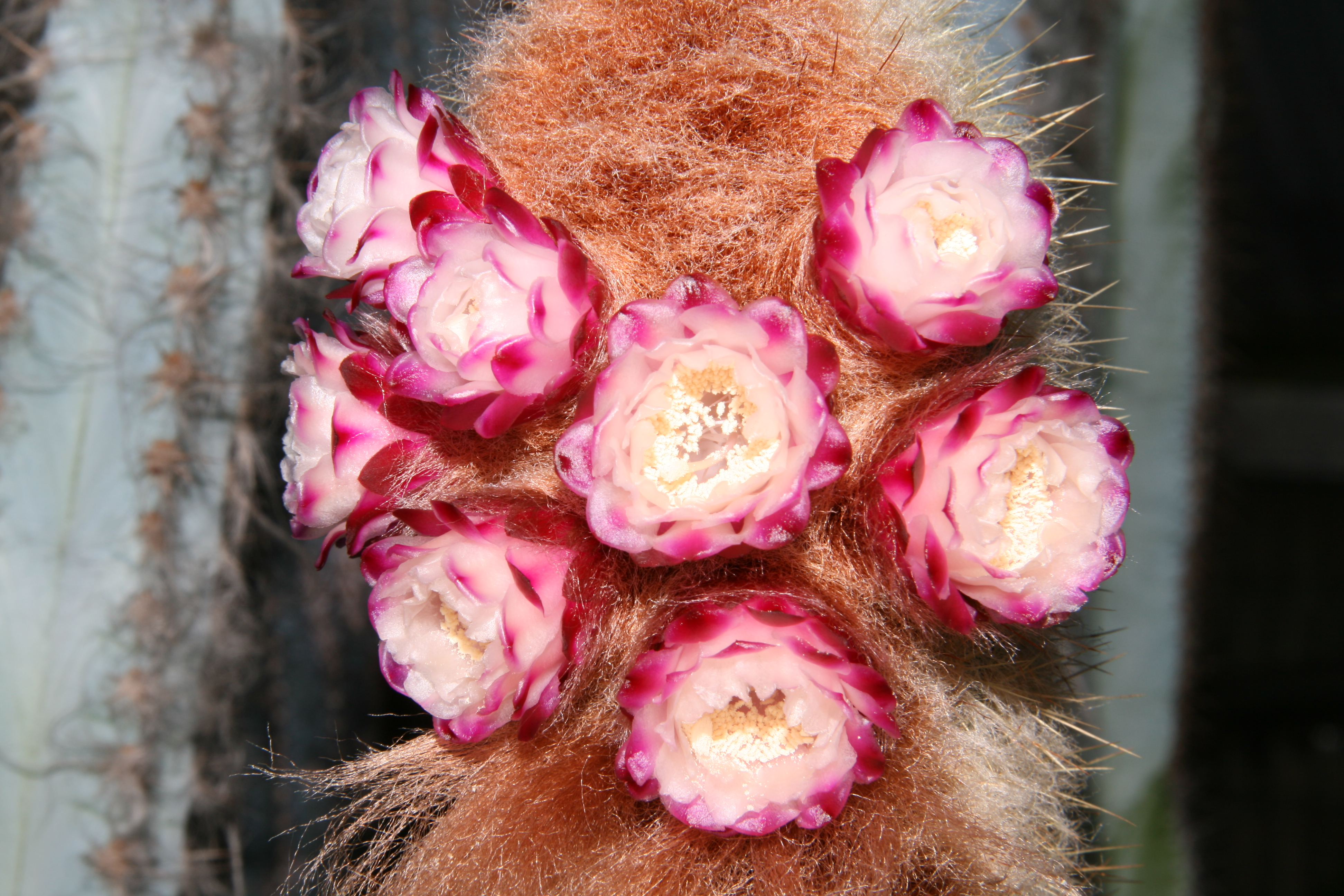 flowering plant from Serra da Sincora, Bahia, Brasil